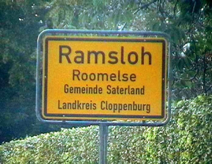 Bilingual place-name sign in Saterland.